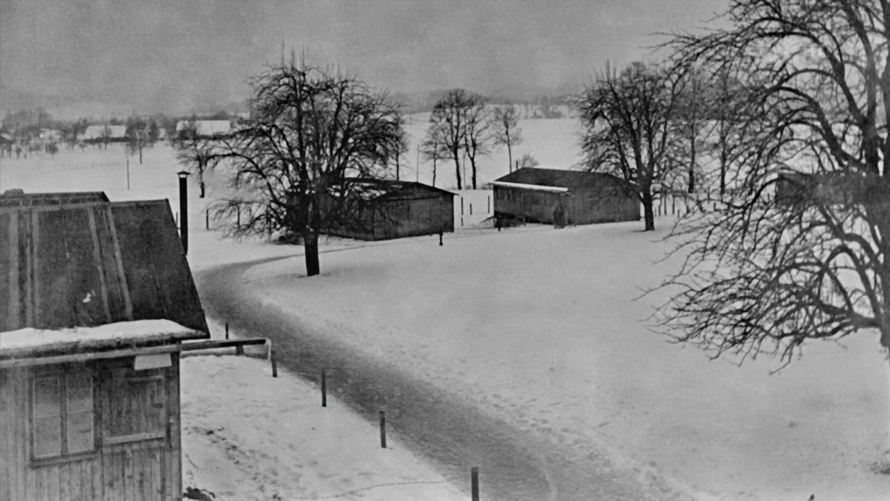 Wauwilermoos internment camp probably in late 1944, Egolzwil-Wauwil, Canton of Luzern.